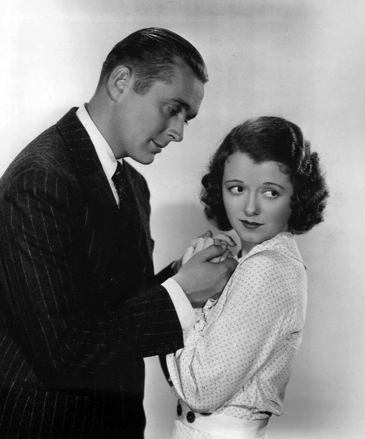 Photo of James Dunn and Janet Gaynor. The film's eventual title was Change of Heart (1934).